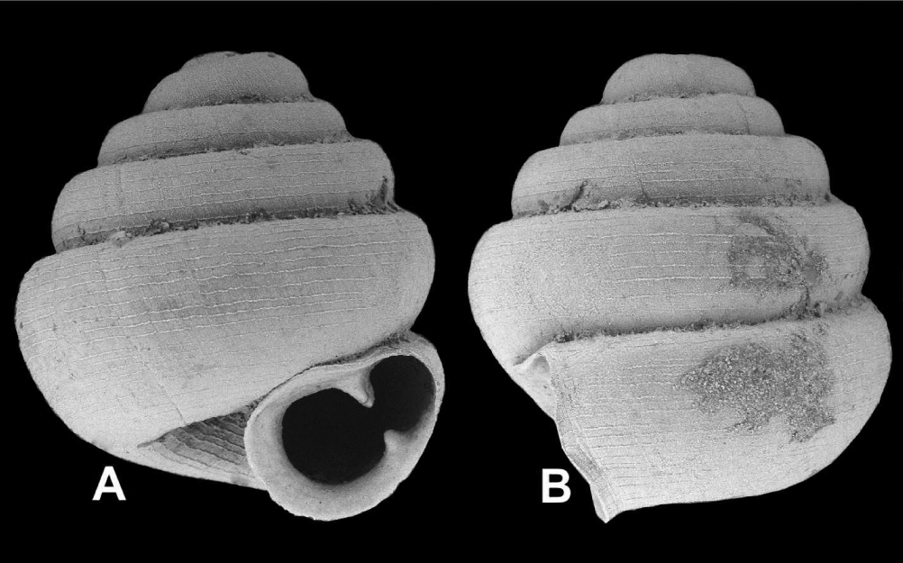 Angustopila dominikae Barna Páll-Gergely, András Hunyadi, Adrienne Jokum, Takahiro Asami, 2015, Hypselostomatidae, Pulmonata, Gastropoda, Jiaole Cun (交乐村), Bama Xian (巴马县), Hechi Shi (河池市), province Guangxi (广西) (24°7.045'N, 107°7.847' E).